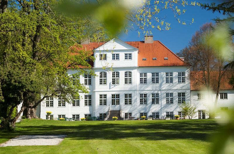 Schæffergården